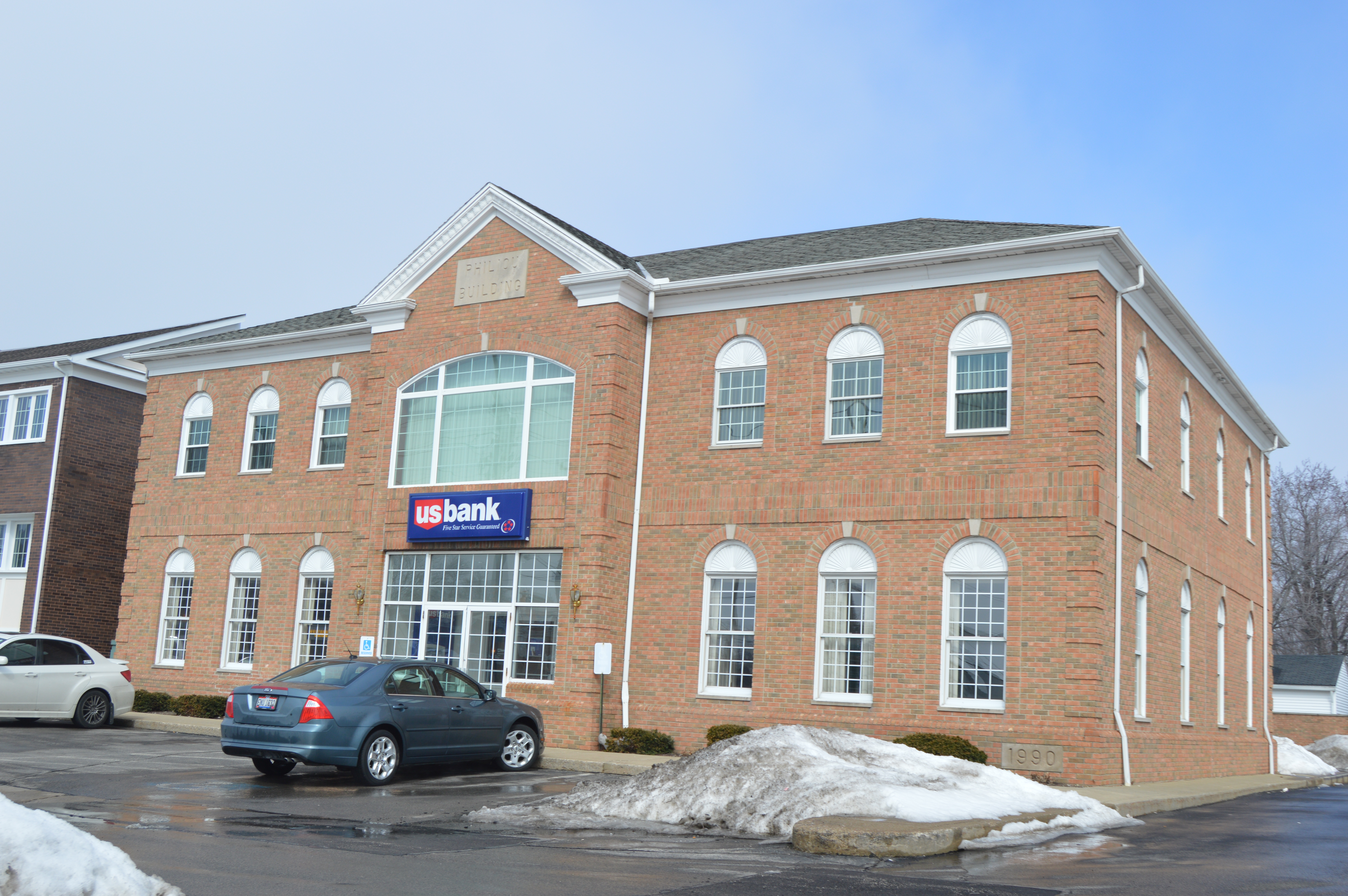 A bank sits on the site of the W.A. Thorp House, located at 6189 Mayfield Road (U.S. Route 322) in Mayfield Heights, Ohio, United States. The house was listed on the National Register of Historic Places in 1978, and even though it has long been destroyed (the bank was built in 1990), it has not yet been removed from the Register.